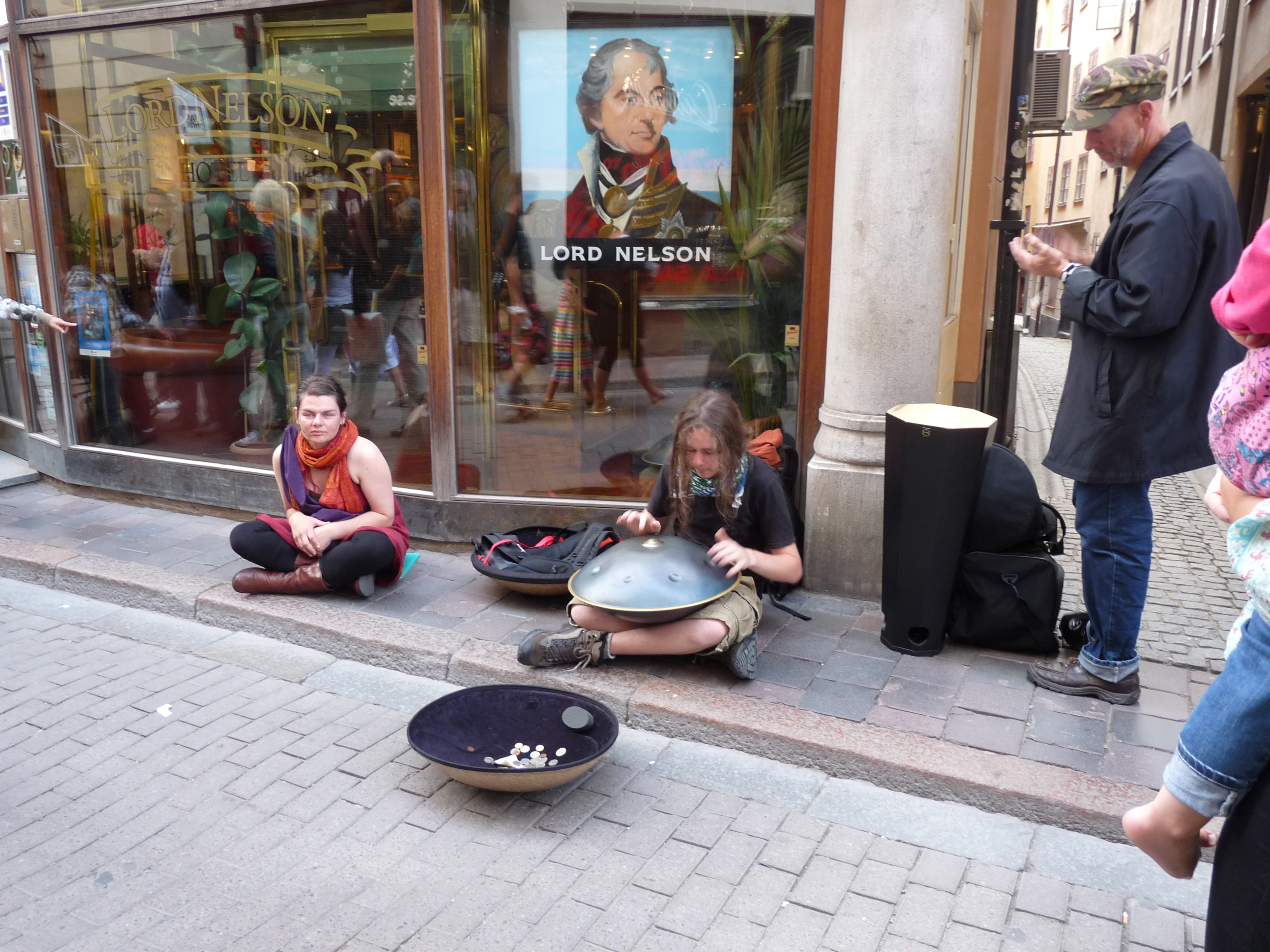 Street musicians outside Lord Nelson Hotel on Västerlånggatan in Gamla stan, Stockholm, Sweden